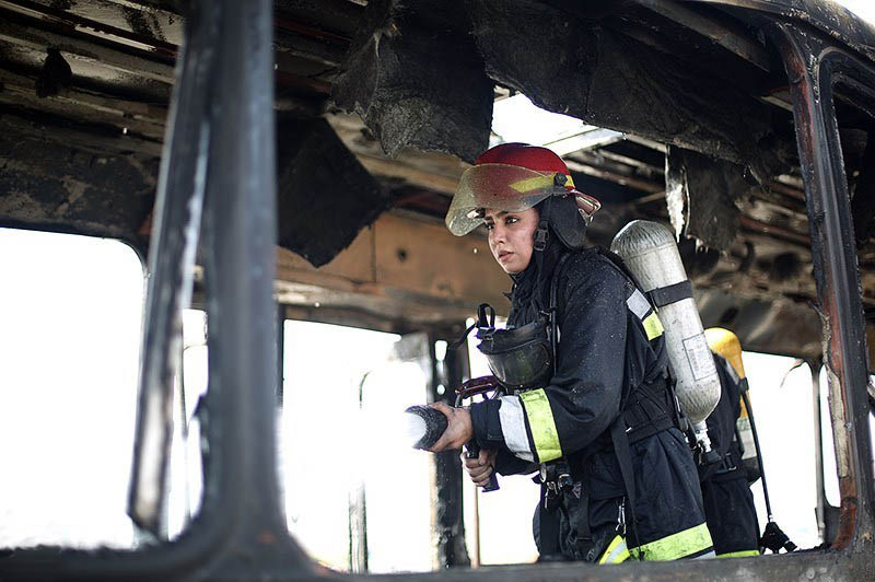 A firefighting training in Mashhad by female firefighters from Mashhad.